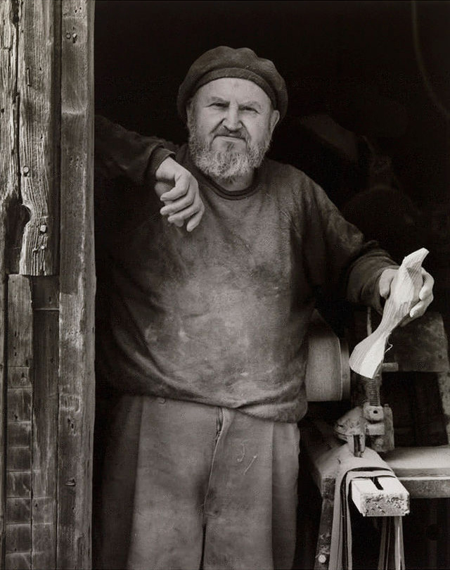 Photo of Emil Milan around 1980 standing in the door of his barn workshop in Thompson, PA.